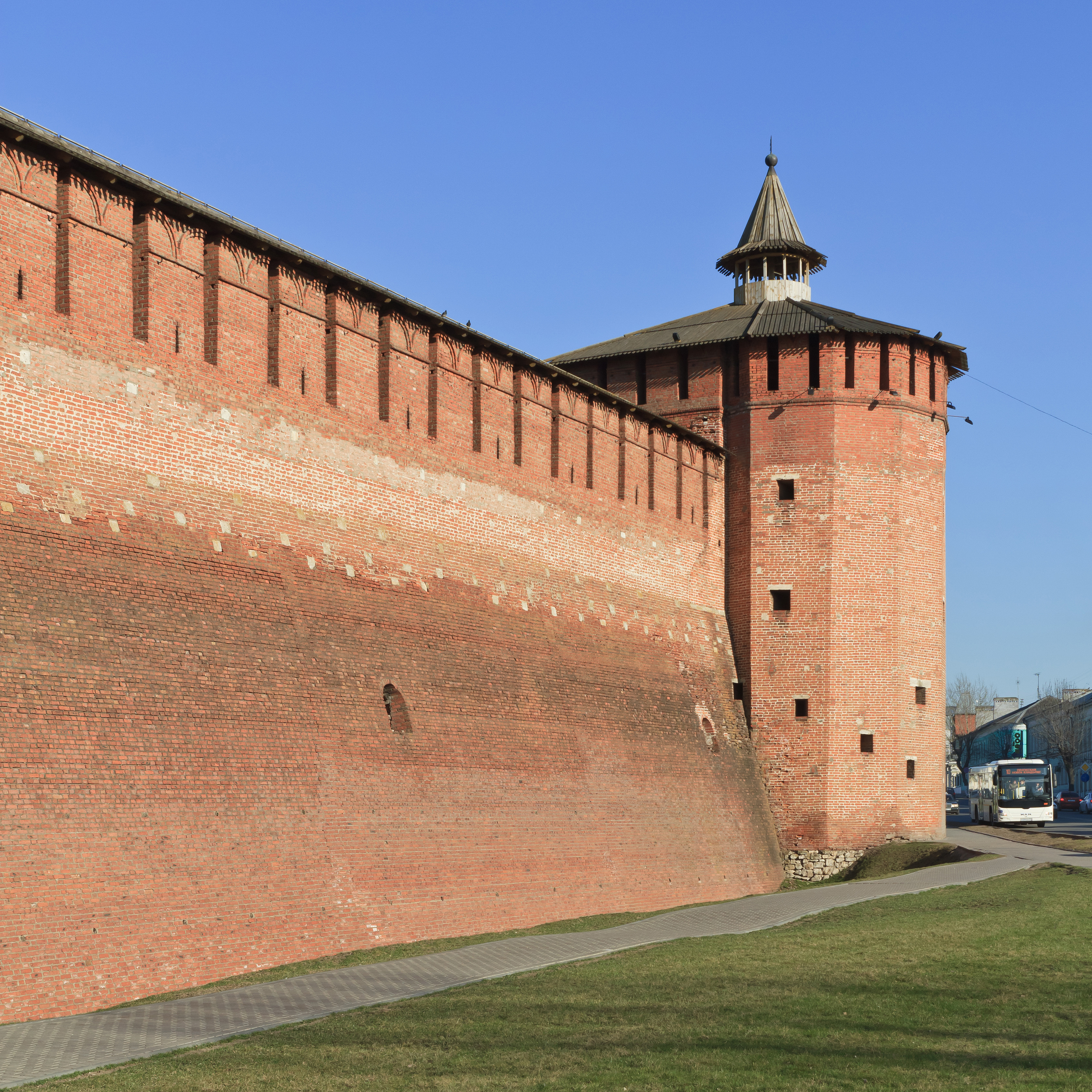 Granovitaya Tower of the Kolomna Kremlin. Kolomna, Moscow Oblast, Russia.